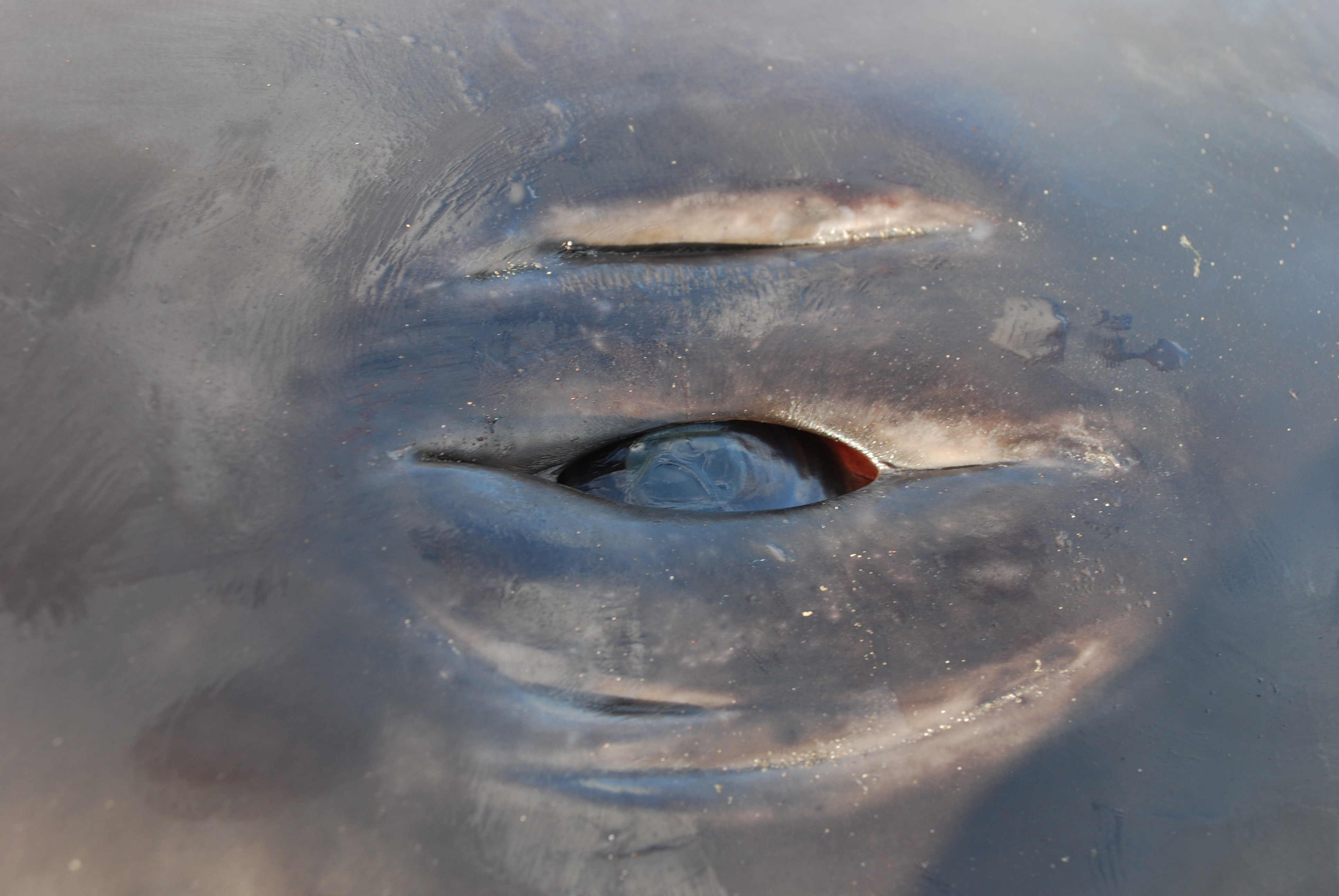 Northern Bottlenose Whale